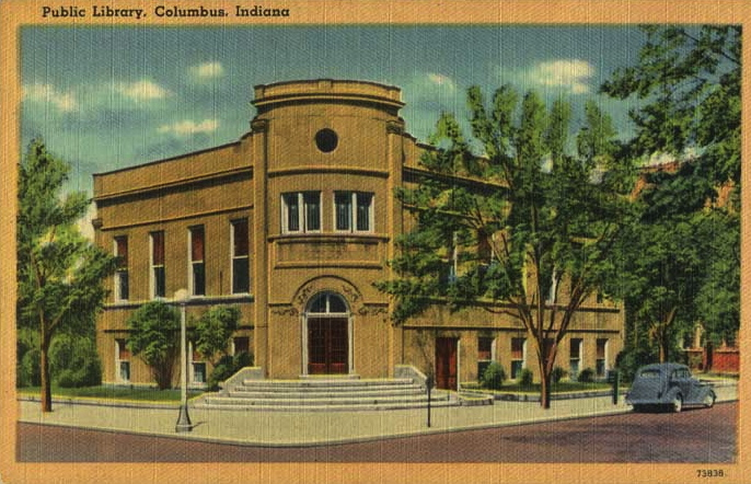 This colorized postcard depicts the first public library in Columbus, Indiana, the Carnegie Public Library. It was built by John W. Gaddis of Vincennes, Indiana and dedicated in 1903. The building was demolished in 1968.